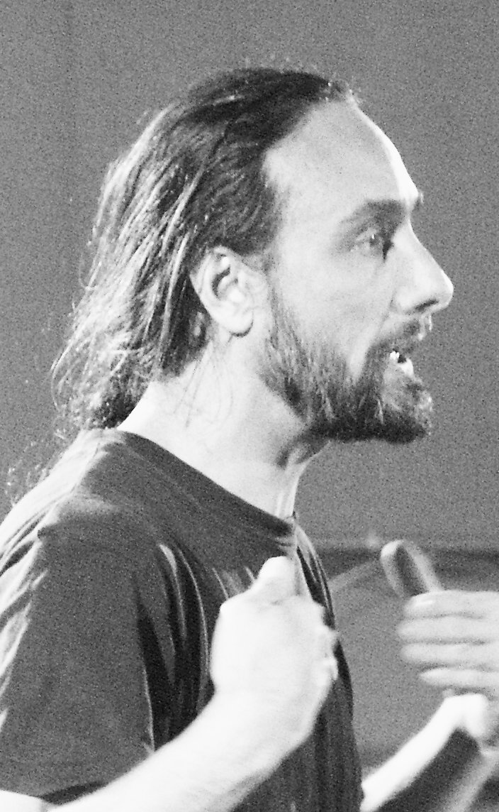 the choreographer Michele Abbondanza